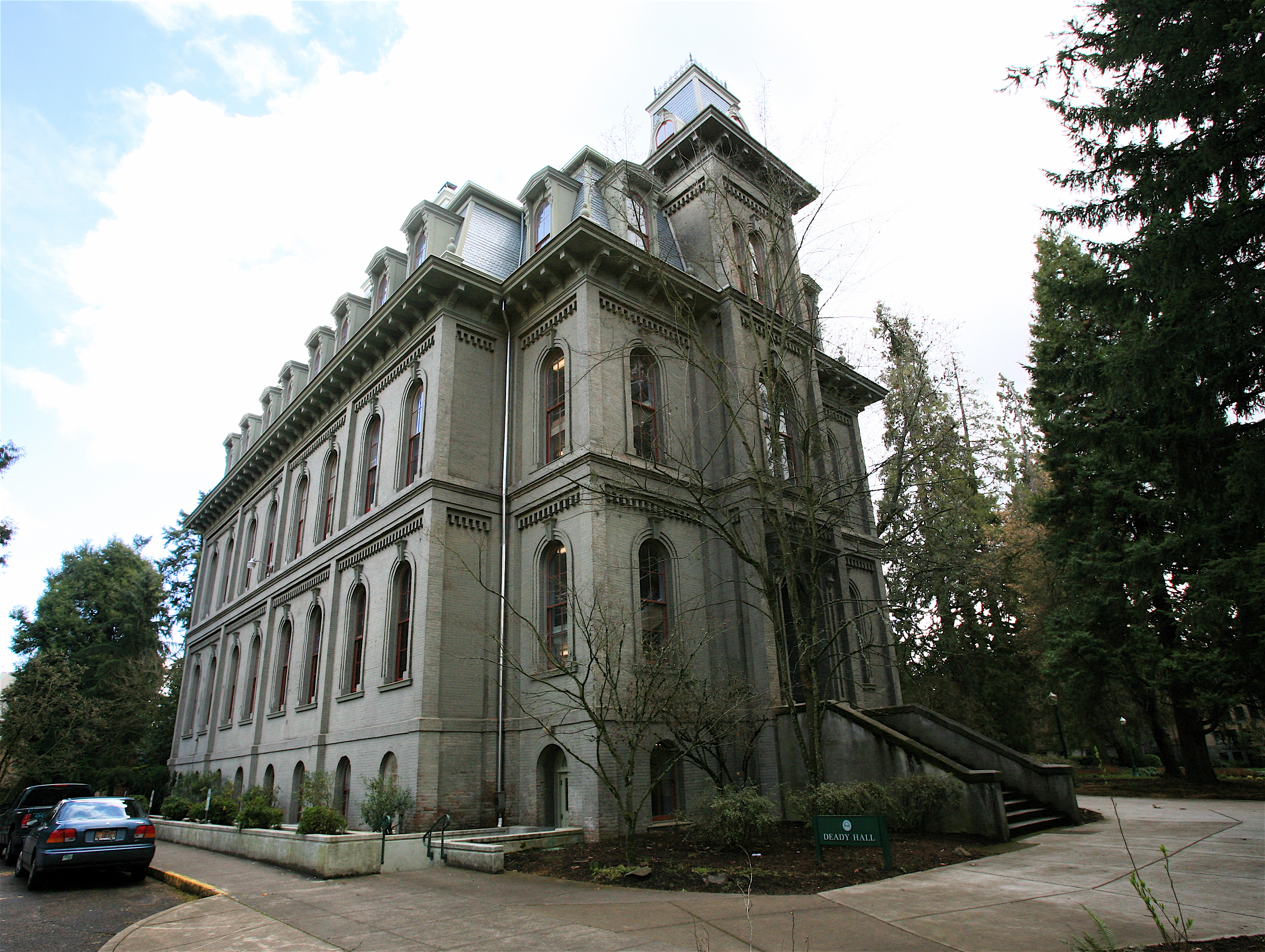 The west side of Deady Hall by Warren Heywood Williams on the campus of the University of Oregon.